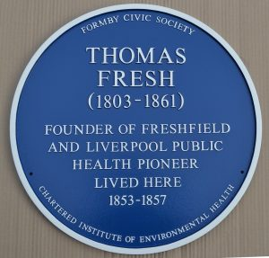 The plaque signifies that the house is of historic interest